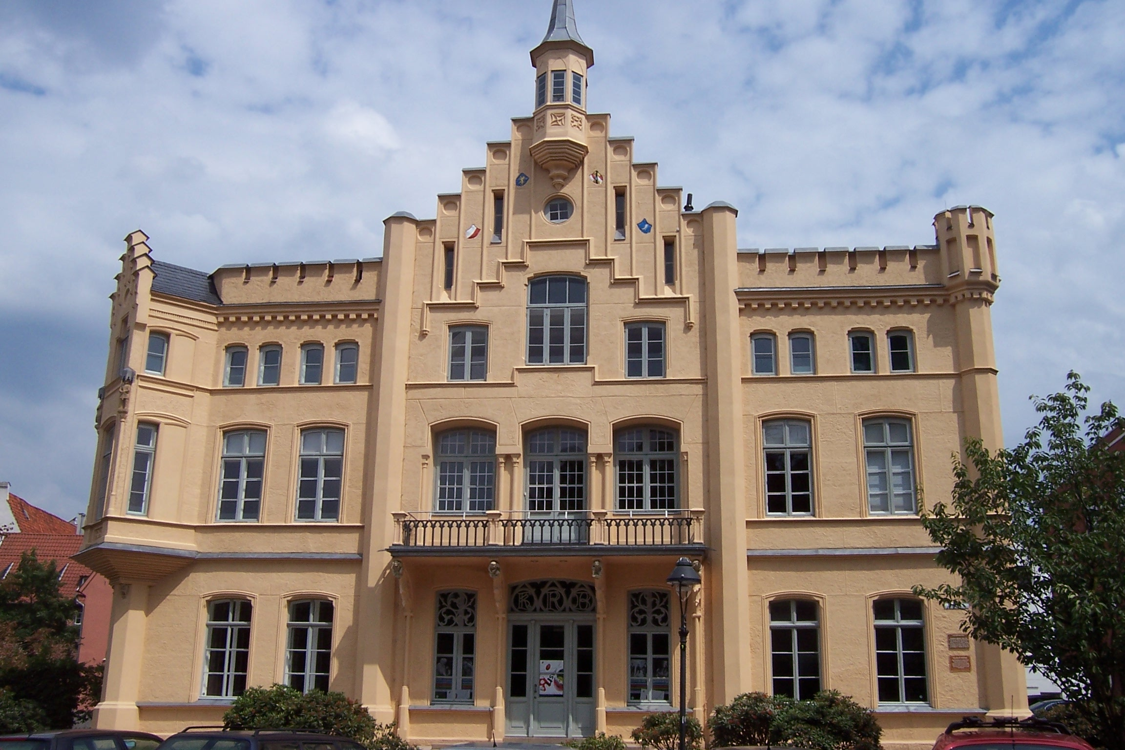 Palais Rantzau in Lübeck